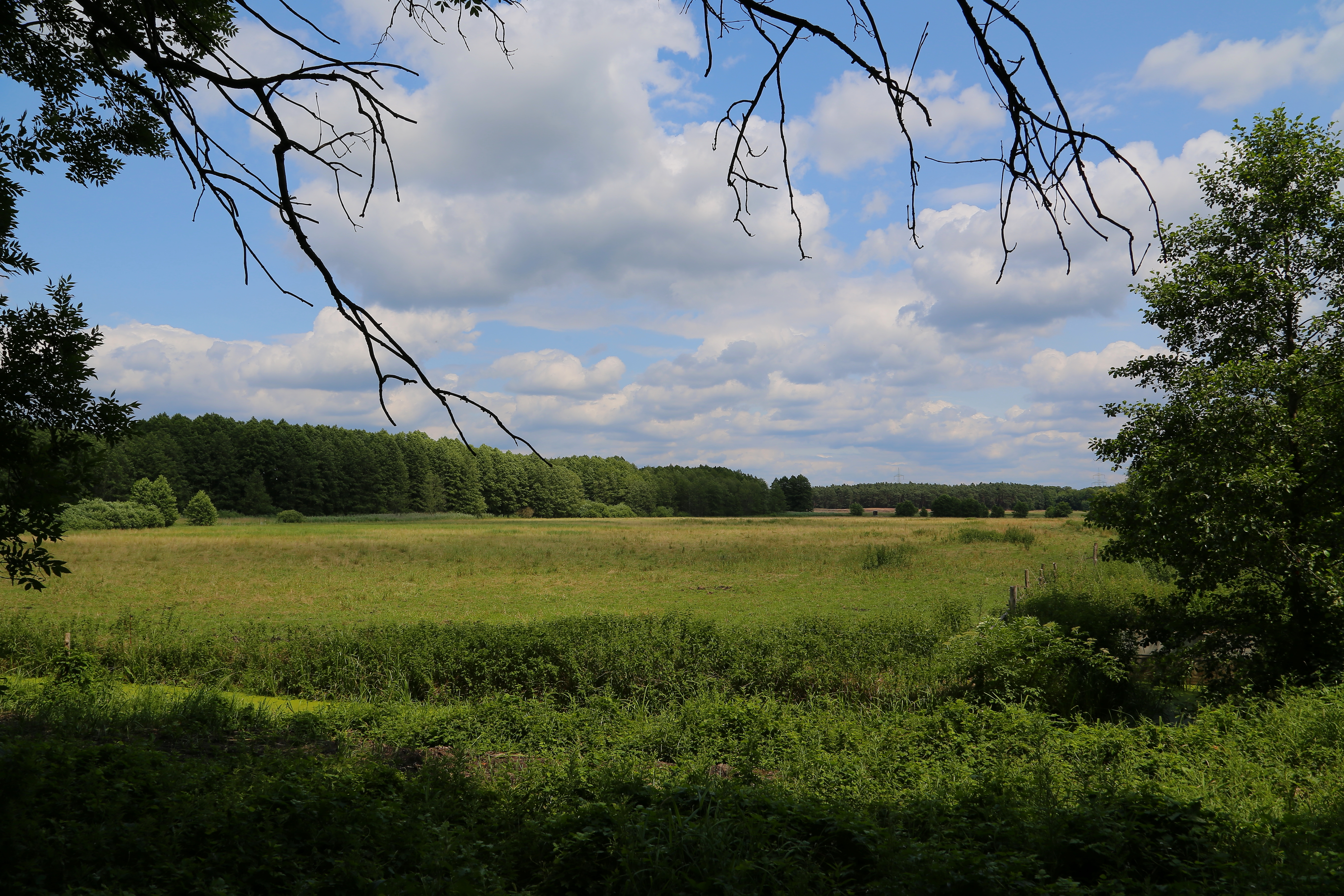 Im Naturschutzgebiet Byhleguhrer See, gelegen auf Gebieten der Gemeinden Byhleguhre-Byhlen und Straupitz, Landkreis Dahme-Spreewald, Brandenburg, Germany.